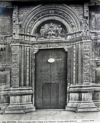 Fotografia Anderson, Rome - "Bologna - Main portal of Saint Petronius church - by Iacopo della Quercia". Catalogue # 6129.